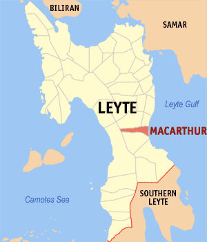 Map of Leyte showing the location of MacArthur